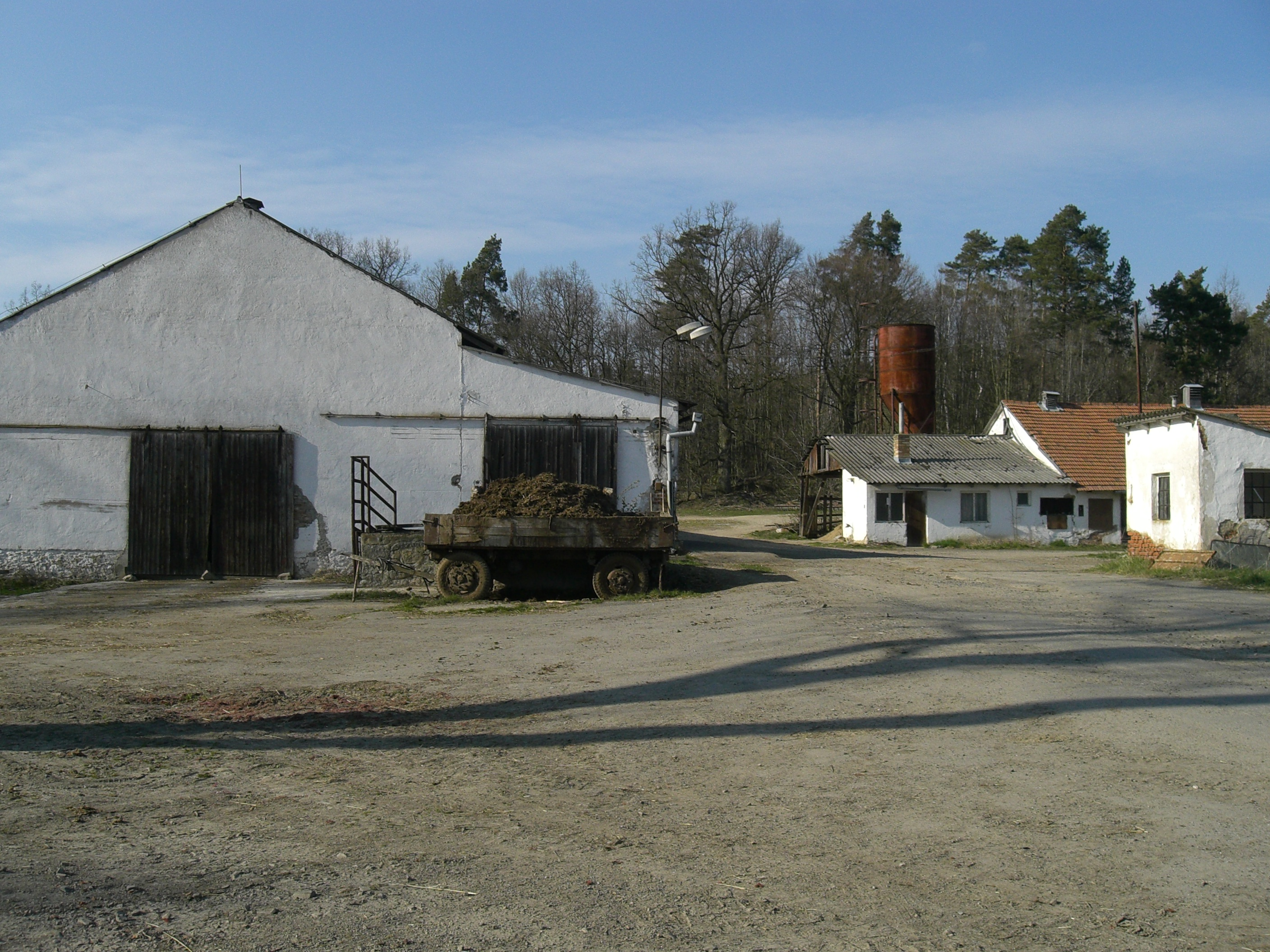 Cowhouse in Hrazany village, Czech Republic